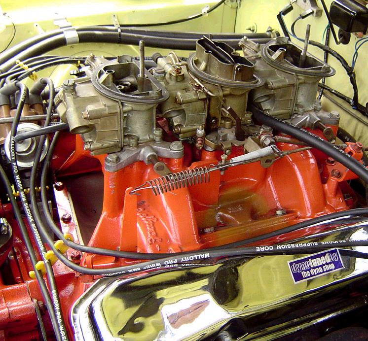 Picture of Mopar 6-pack carburetors.